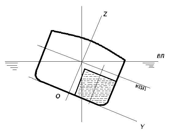 Ship flooding. Typical Case 2